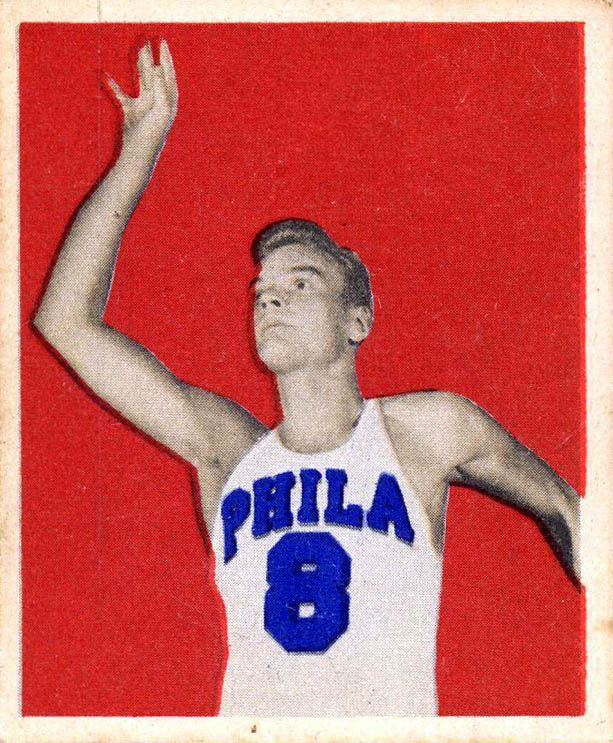 Professional basketball player George Senesky